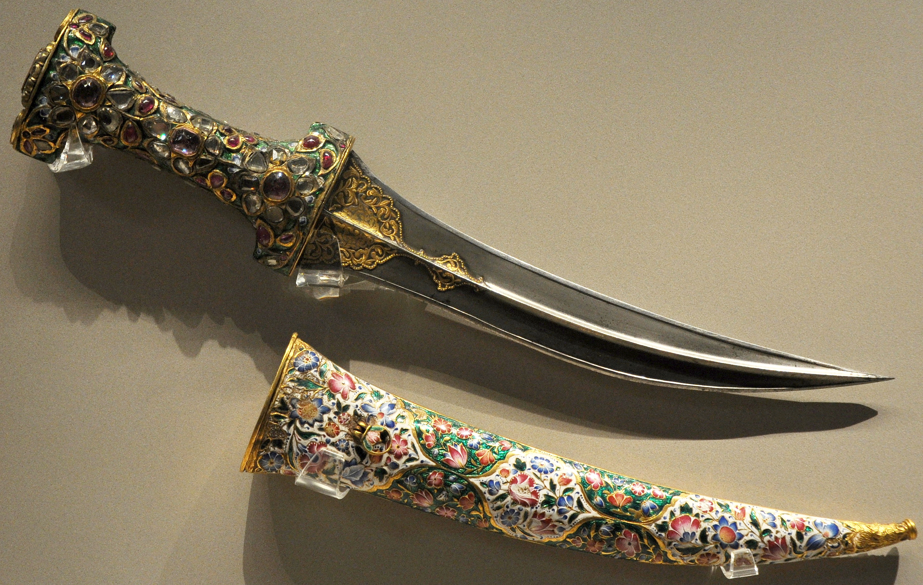 Persian jambiya dagger and sheath from Fath Ali Shah of Persia given 1801 to Captain John Malcolm of th east india company. Victoria and Albert Museum.